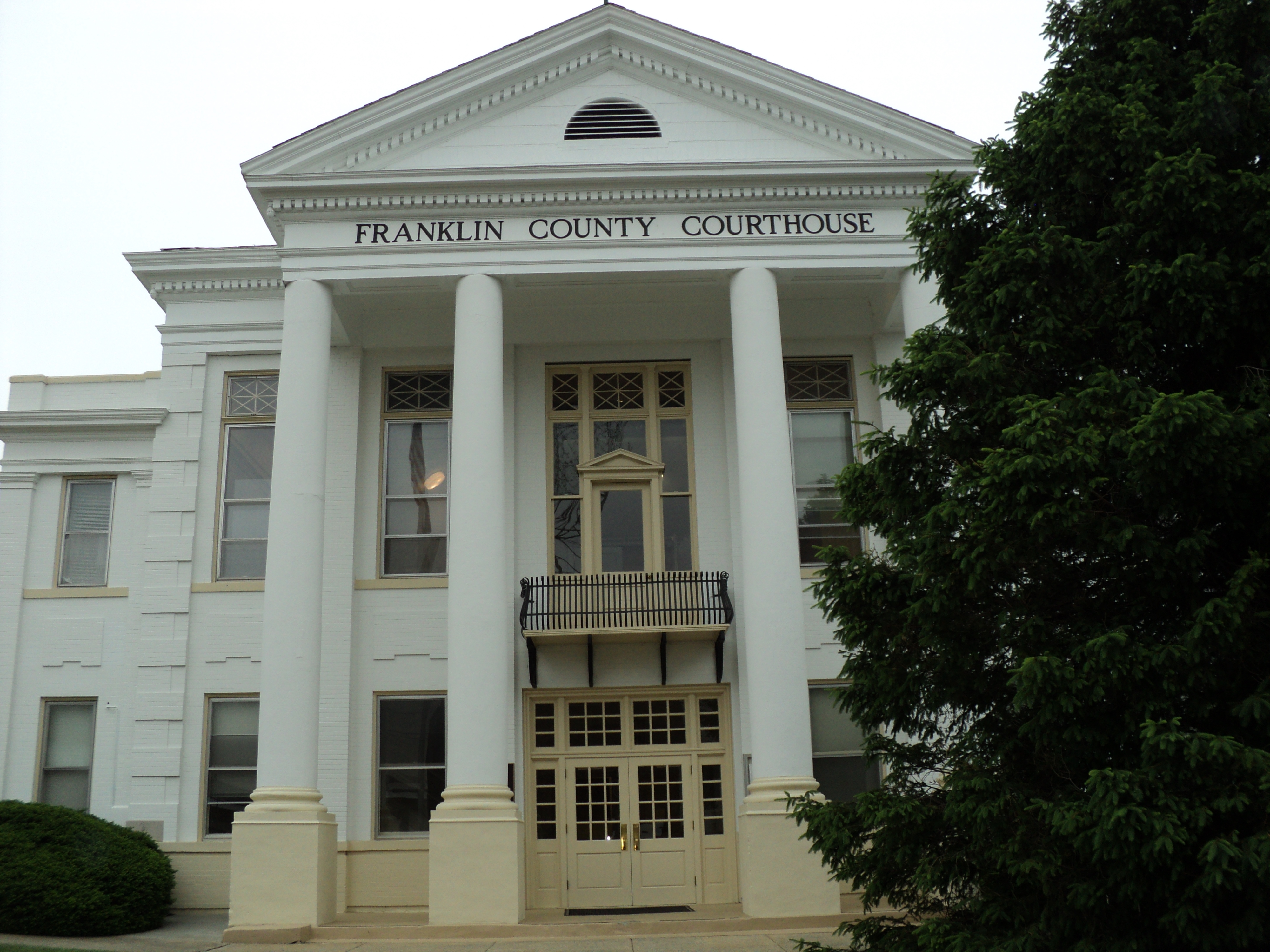 Exterior of the Franklin County courthouse, Rocky Mount, Virginia.